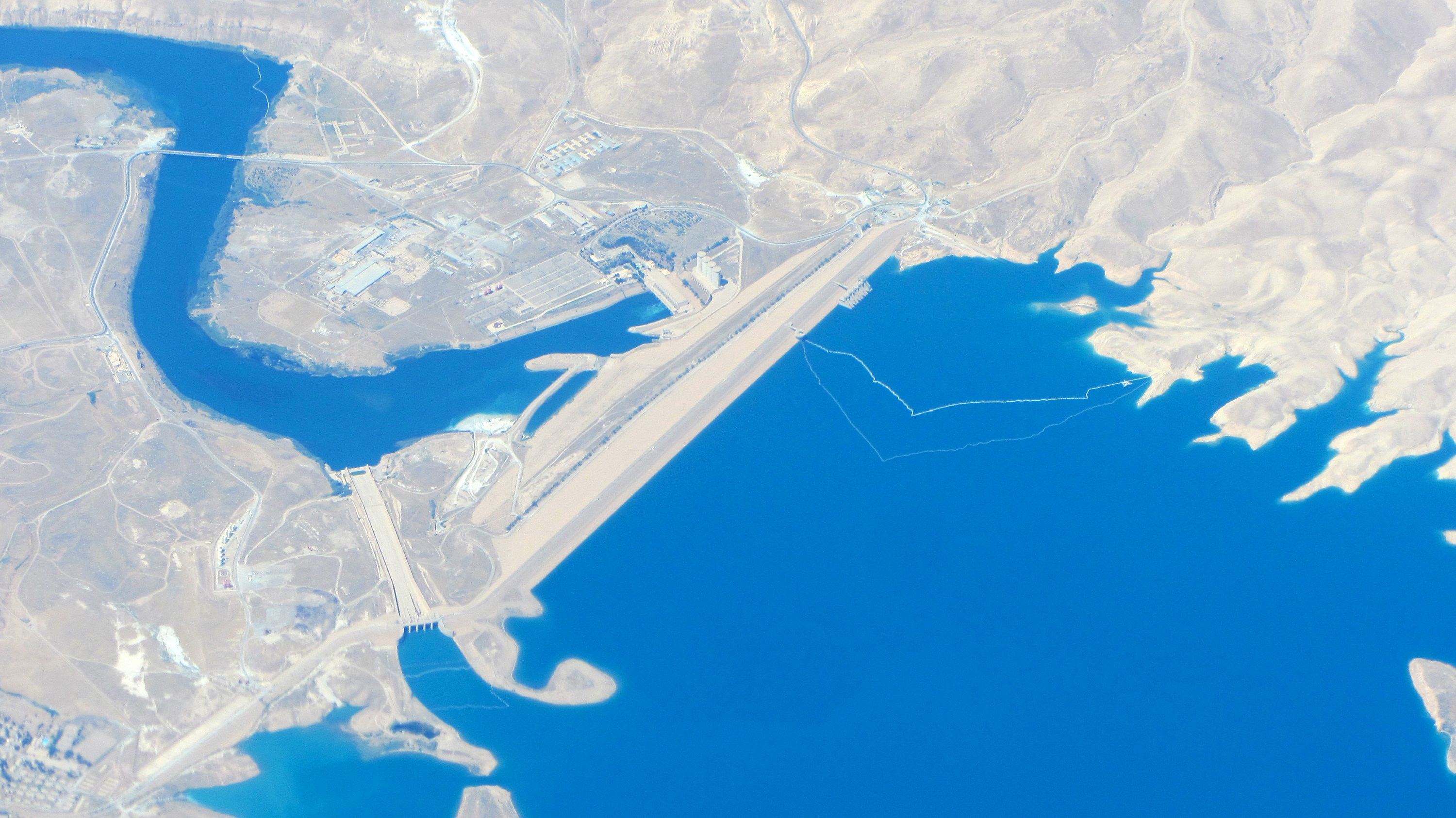 Aerial view of the Mosul Dam, Iraq.